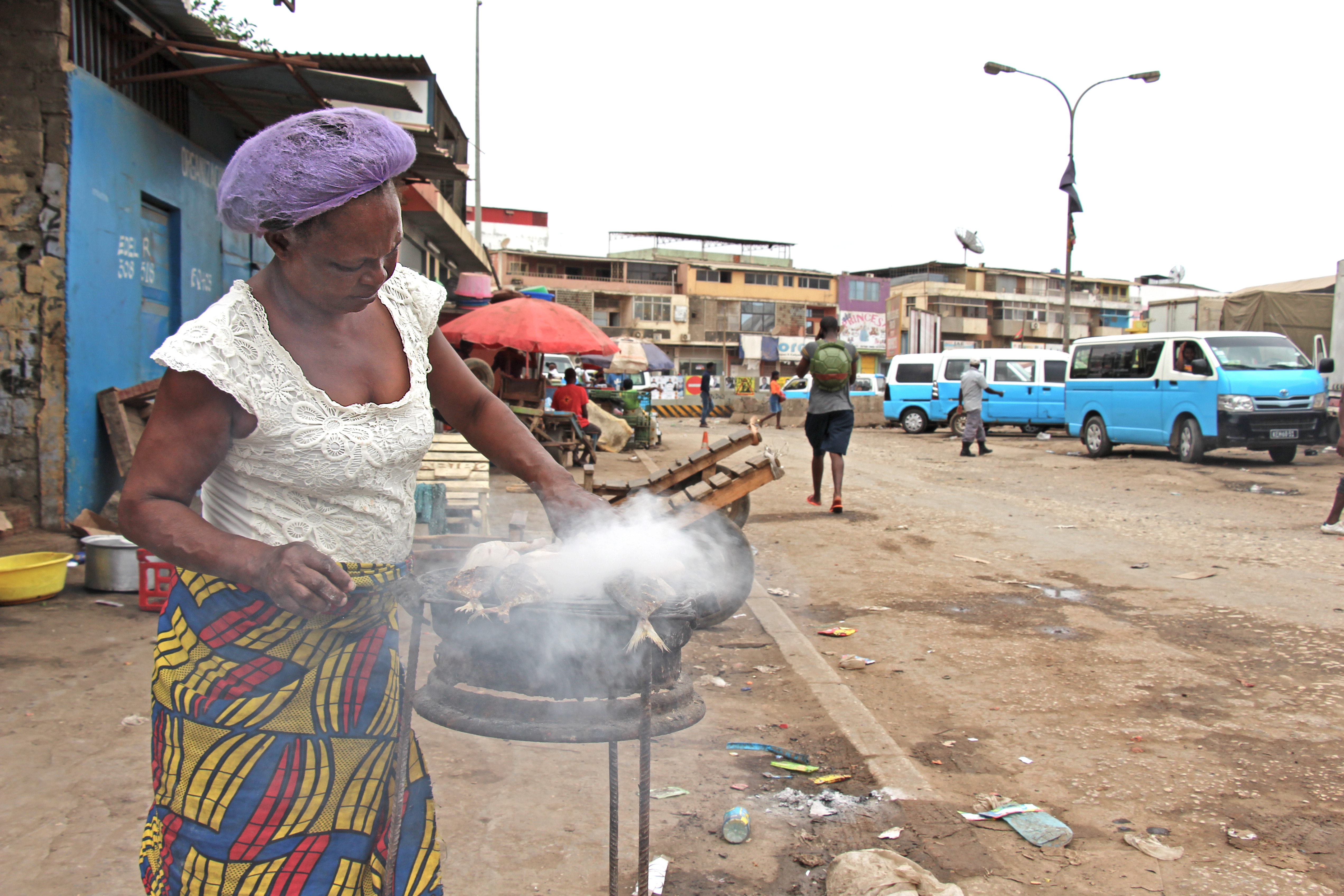 This woman is around her 50's, and this is her job. Every day she cooks something different outside her house, this giving the availableness of her selling to people from outside such as neighbors or other workers and get the chance to get money for it. This is an image of "African people at work" from Angola